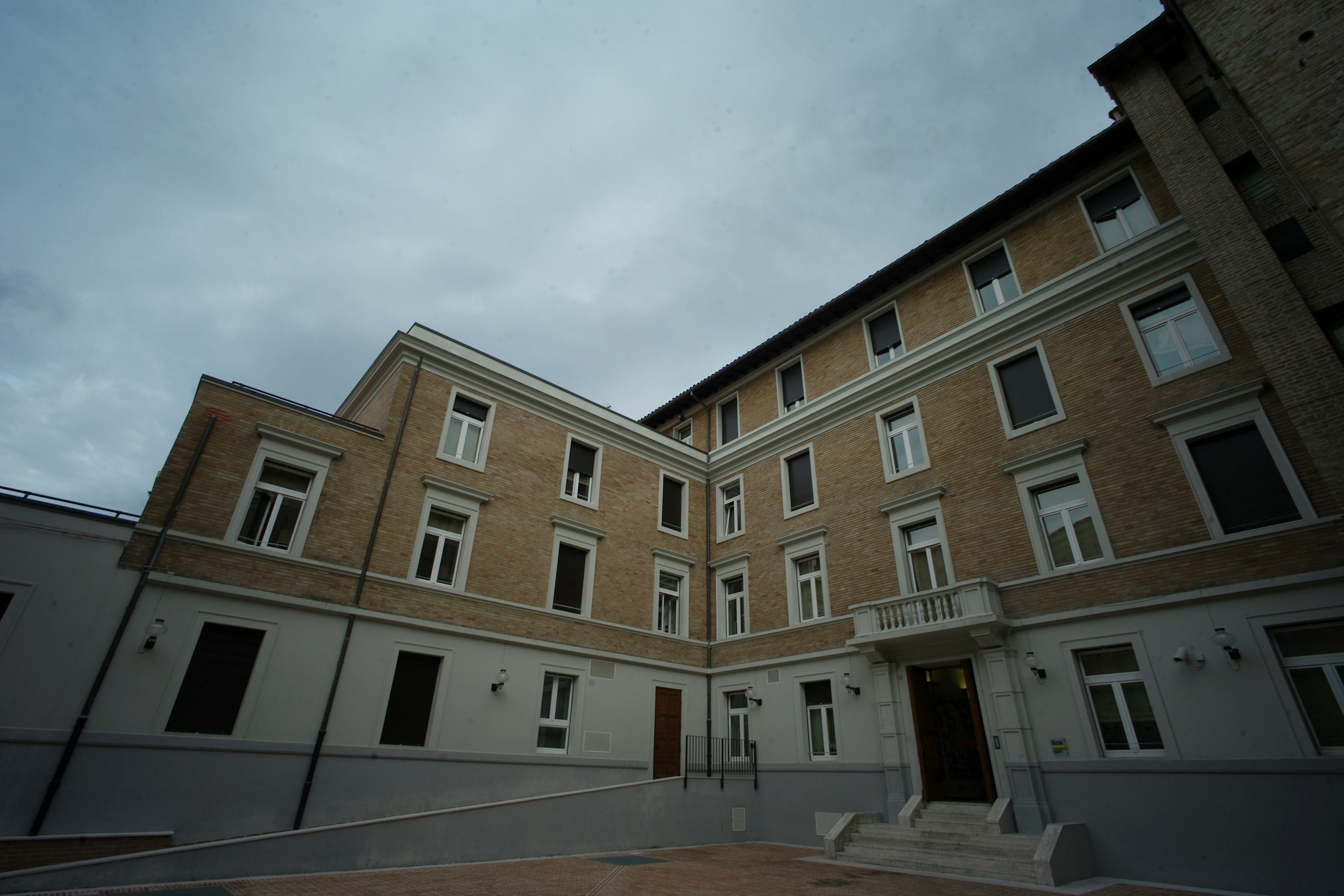 Main front of the Student House in Urbino